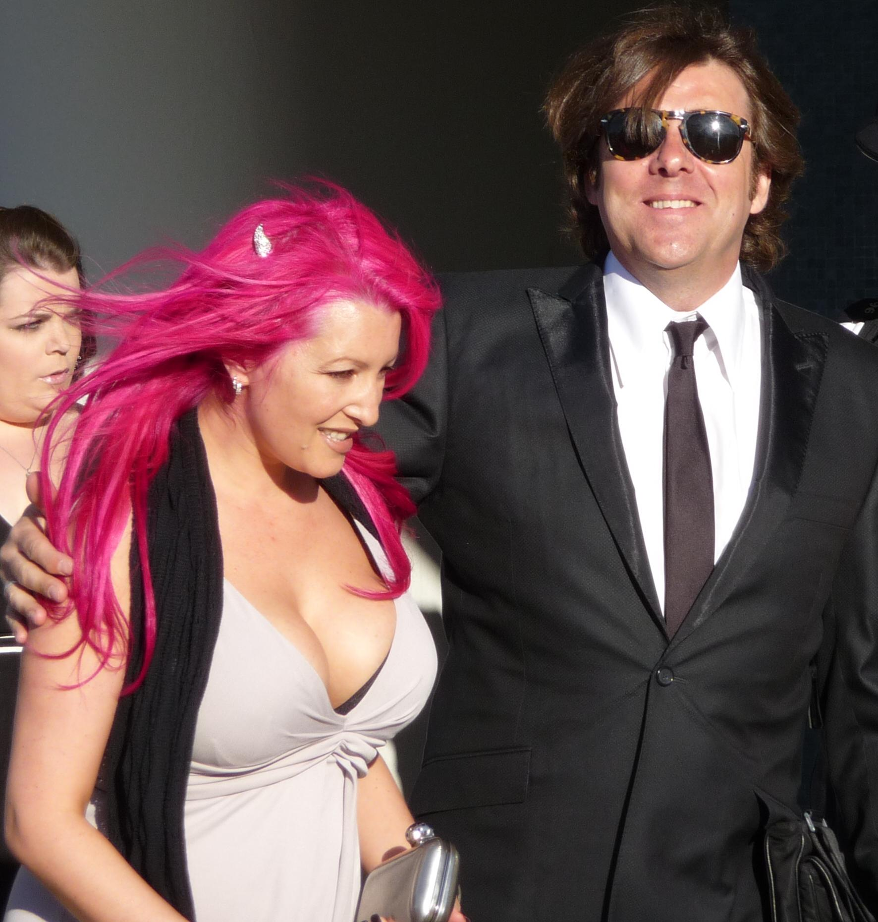 Chat show host and presenter Jonathan Ross with his screenwriter wife Jane Goldman on the red carpet at the BAFTA Awards, held at the Royal Festival Hall, on the Southbank in London.